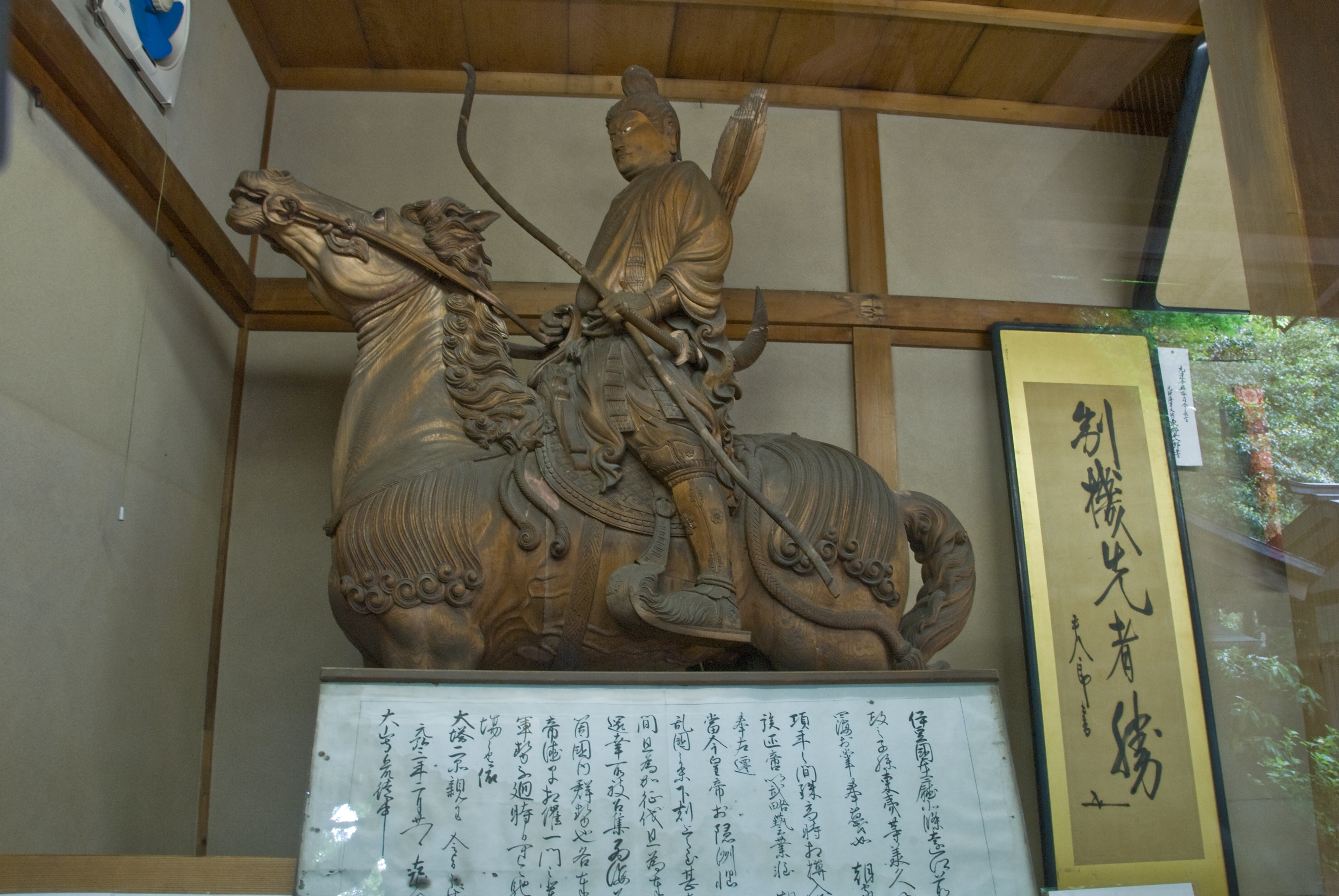 Part of the treasure at Kamakura-gu shrine, Kamakura. Statue of Prince Morinaga